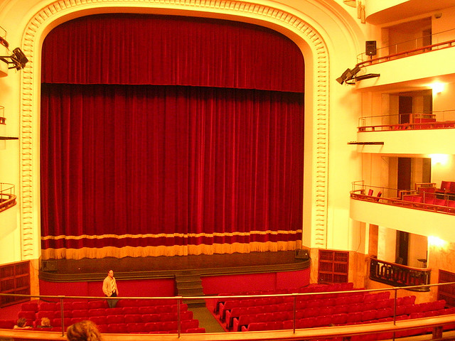 Teatro Duse, Bologna - Italia. Camera: Nikon E3200 License on Flickr (2011-02-13): CC-BY-SA-2.0 Flickr tags: Bologna, Teatro